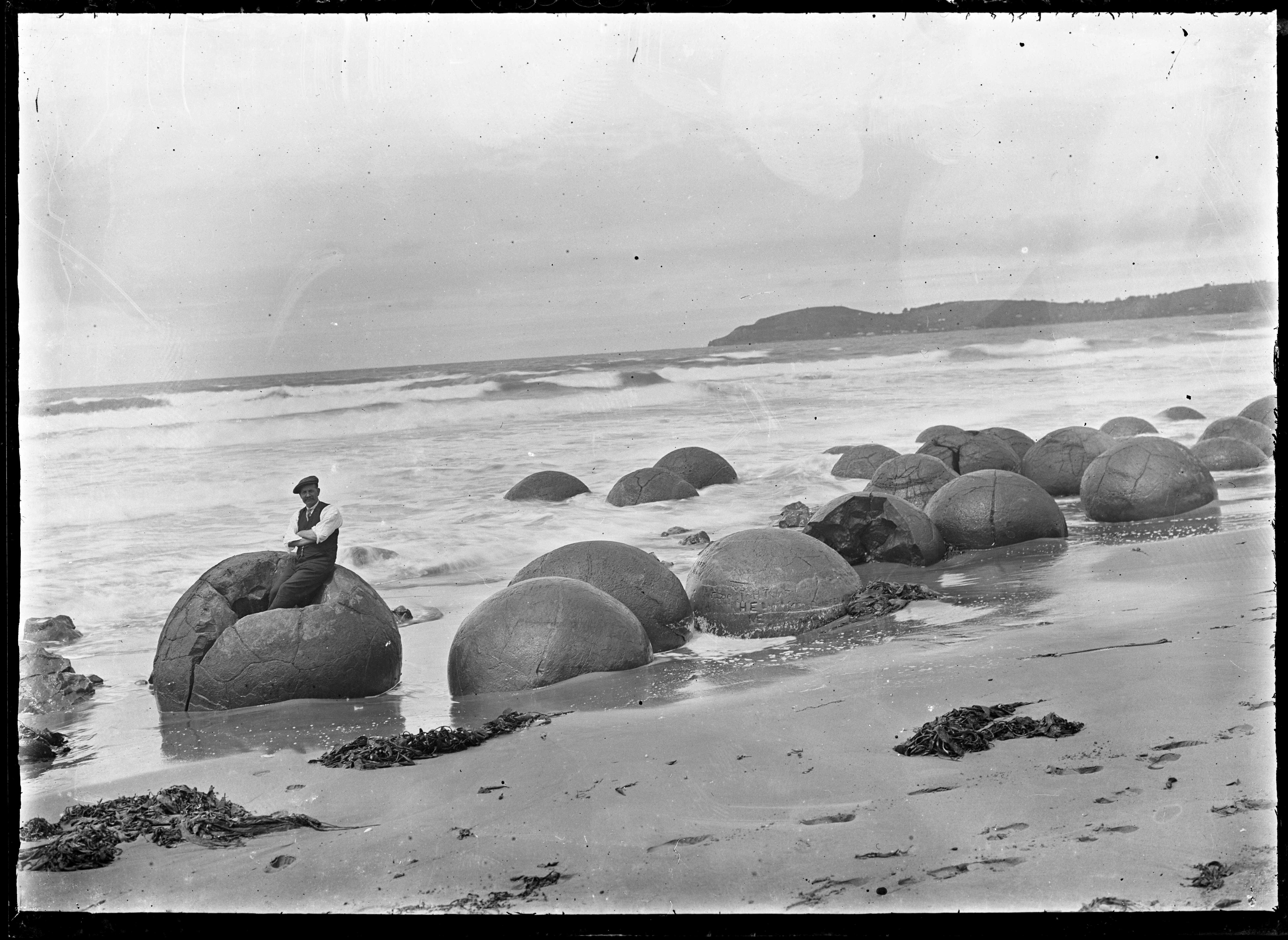 View of Moeraki Beach and boulders. A sense of scale is given to the boulders with the photographer Albert Percy Godber seated on one. Photograph taken by Albert Percy Godber circa 1925.